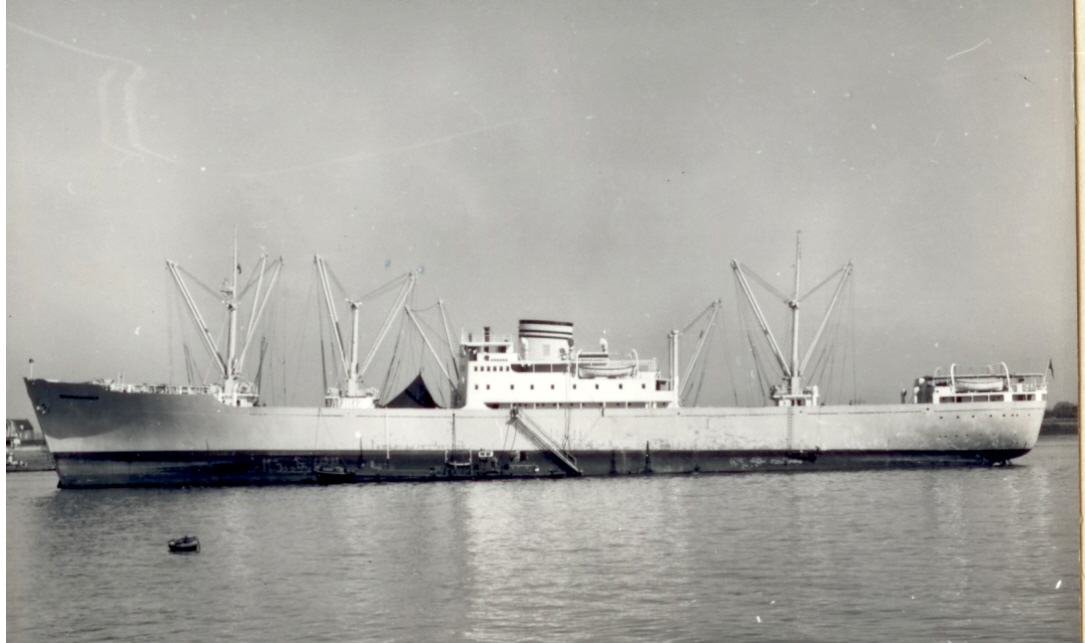 The freighter MS Brandanger in 1949, built for the ship owner Westfal-Larsen in Bergen, Norway, later sold to Bulgaria and renamed Petar Beron